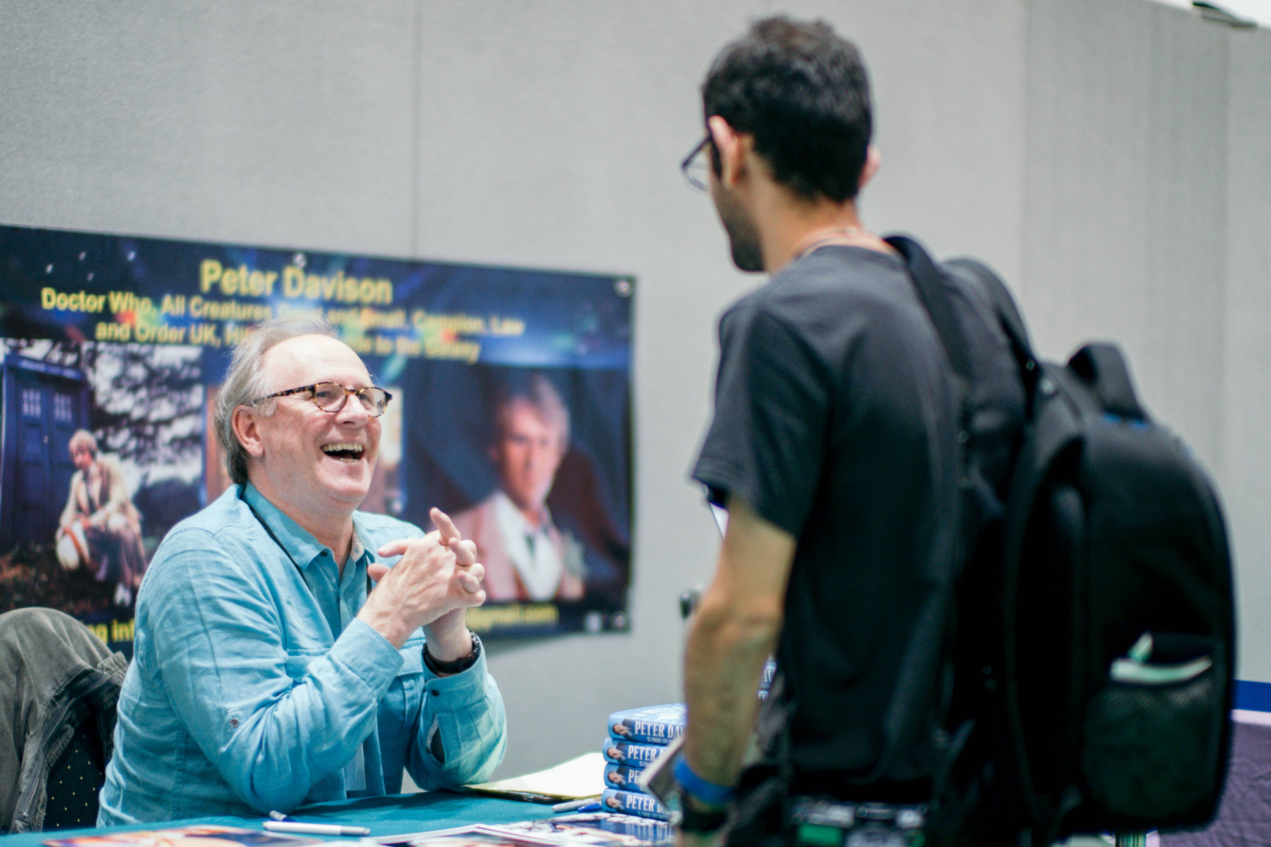 Peter Davison at London Comic Con, October 2016